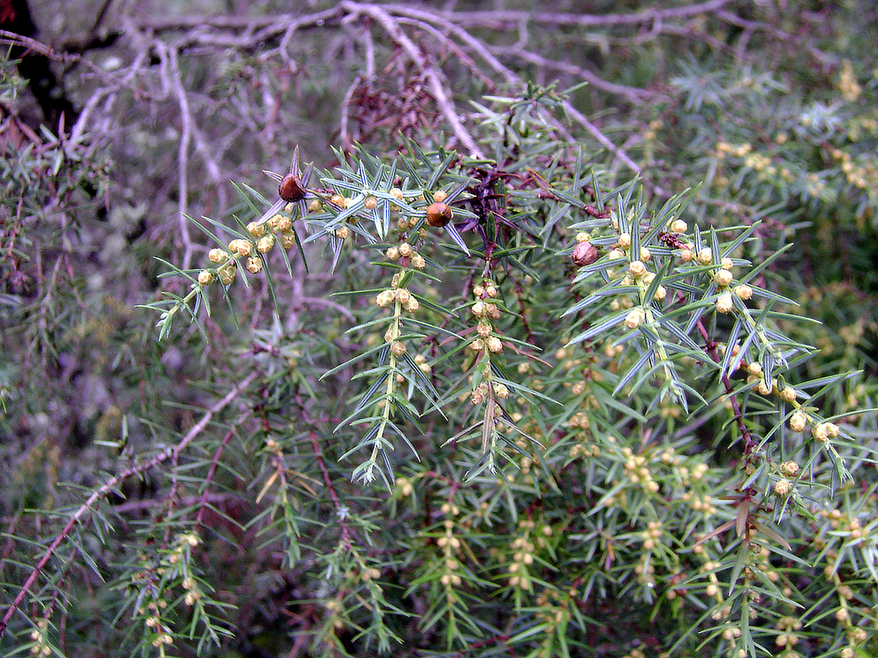 Juniperus oxycedrus subsp. badia, young pollen cones (yellow) and galls (brown), Sierra Madrona, Spain